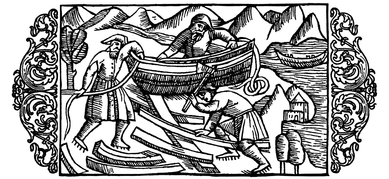 Three men are building a boat. The man to the left is sewing together two boards on the port side. The man in the foreground forms other boards with an axe. The man behind mounts the last board on the starboard side. A rowing boat is seen in the water.